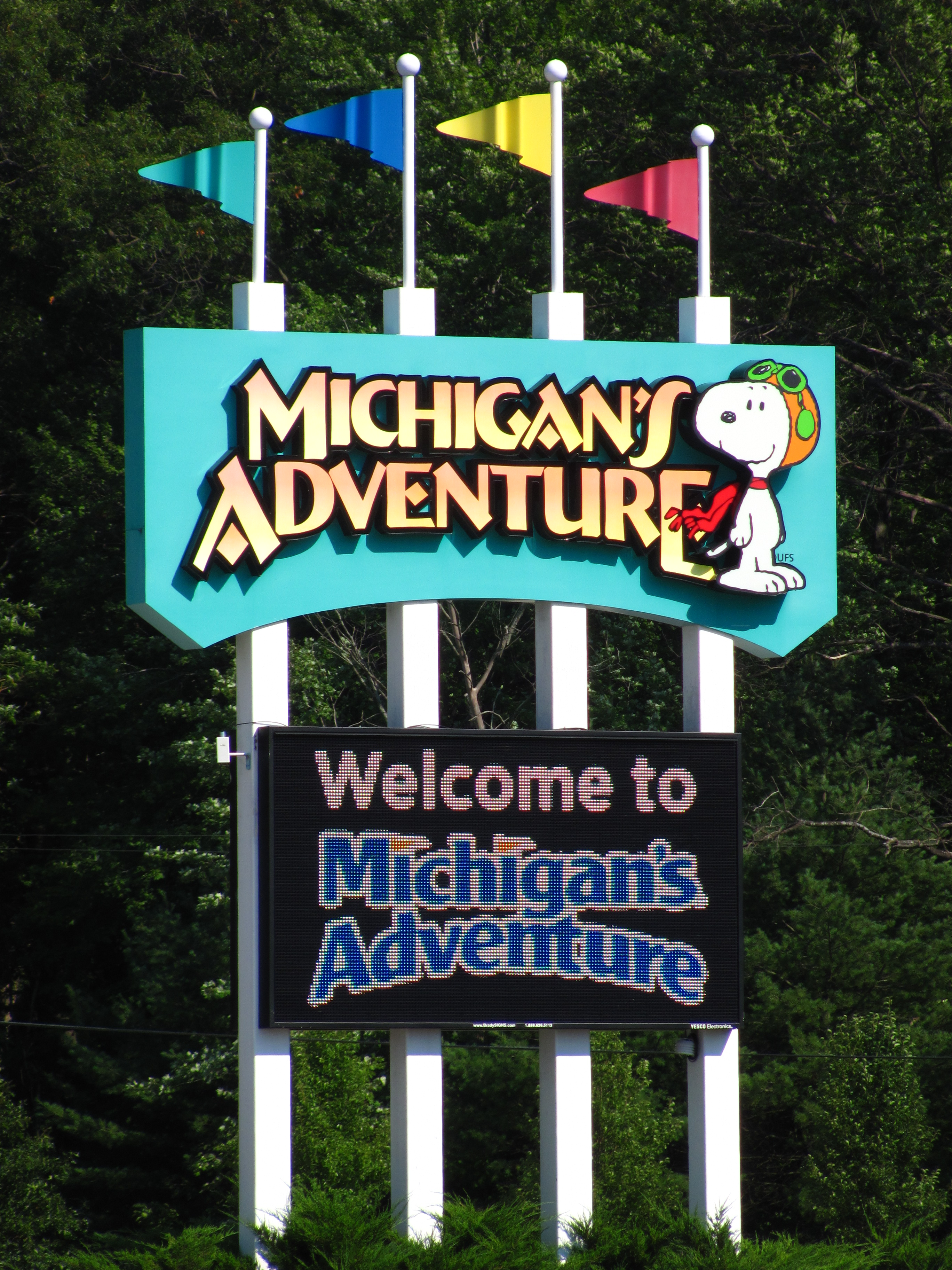 Michigan's Adventure 021